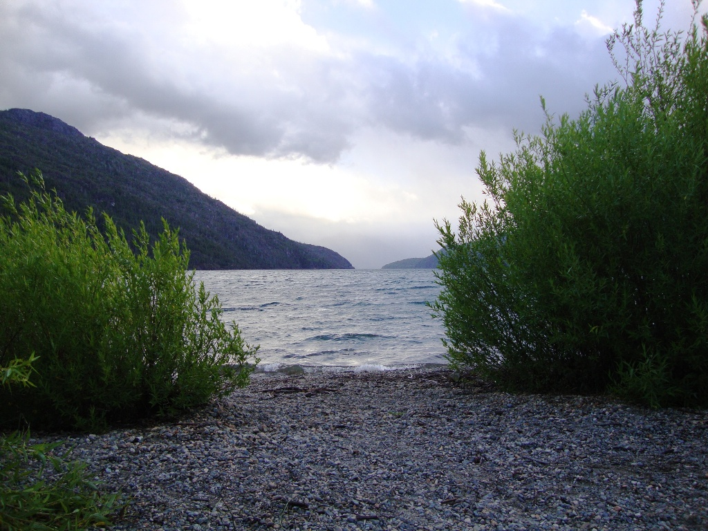 Puelo Lake